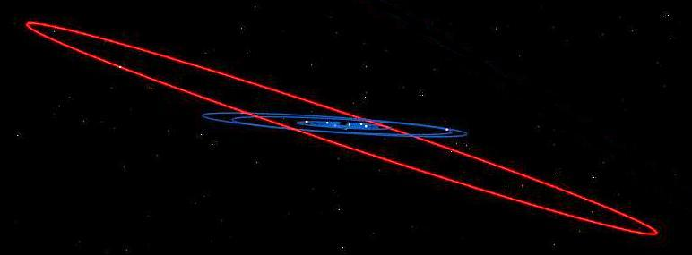 Side view of Iapetus's orbit. Image created using Celestia software.